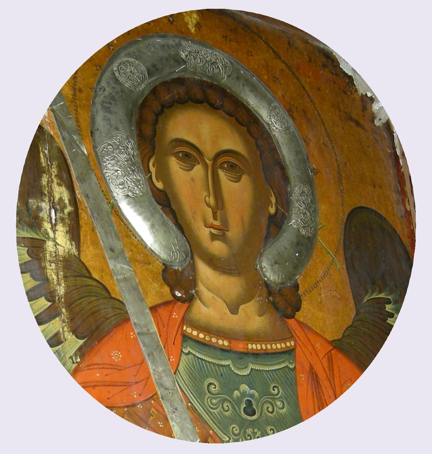 Archangel Michael Icon in Saint Spyridon Church in Kastoria